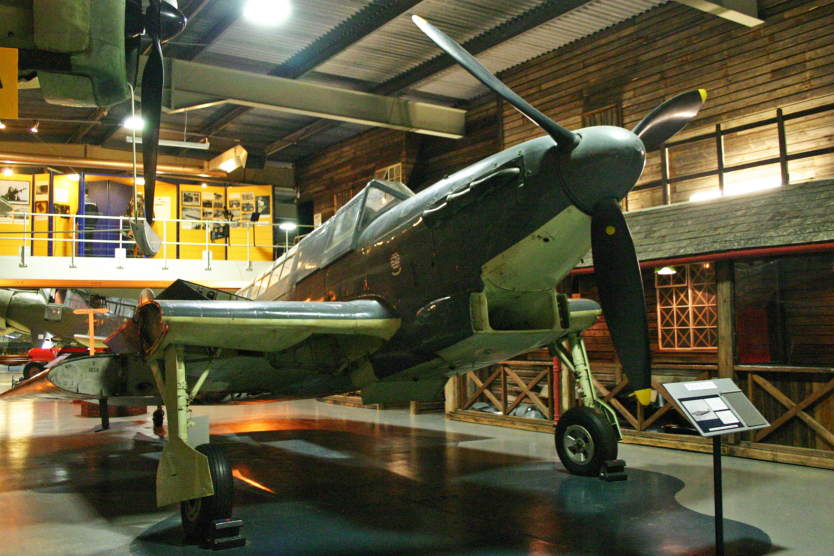 msn F.3707. Despite being no barriers it's sadly very difficult to get a decent shot of this, the sole surviving Fulmar. FAA Museum Yeovilton. 15-6-2011